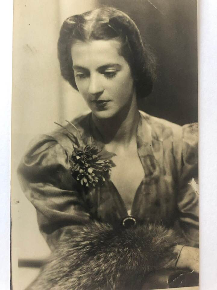 The photo shows the daughter, Era Veronika nee Bauer of the managing director of Carl Fabergé, Dr. Otto von Bauer and scientist in the field of bookkeeping, Dr. Otto von Bauer has always exchanged poems with his daughter Era.